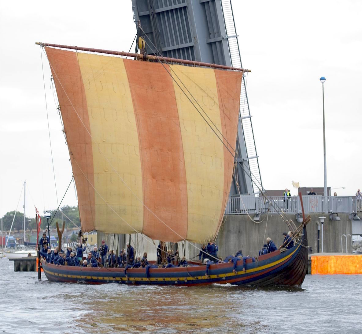 Today, 14th August 2007 at 13.39, the crew of the Sea Stallion arrived in Dublin. Accompanied by the tunes of Irish Army No. 1 Band, the ship made fast at Custom House Quay in central Dublin. The Sea Stallion from Glendalough is the Worlds largest reconstruction of a Viking Age warship. The original ship was built at Dublin ca. 1042. It was used as a warship in Irish waters until 1060, when it ended its days as a naval barricade to protect the harbour of Roskilde, Denmark. visit See where this picture was taken. [?]